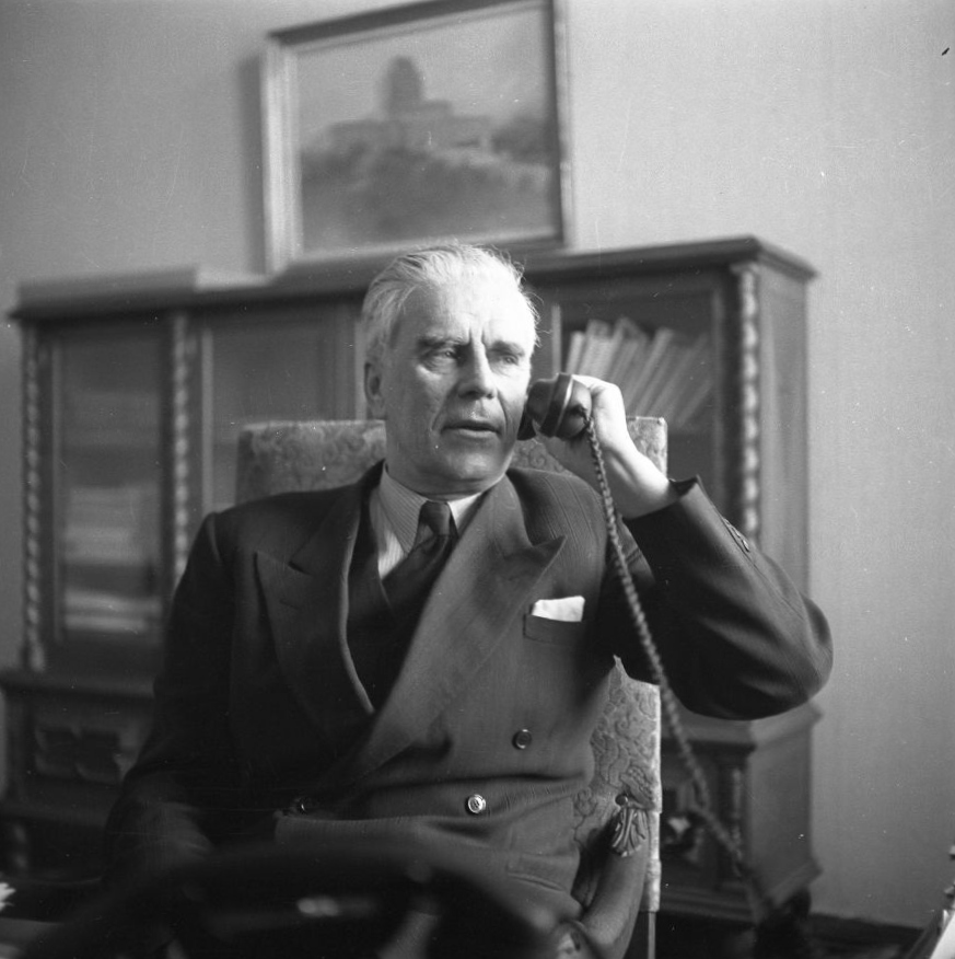 Photograph of the Finnish engineer and professor of mechanical technology Martti Levón (1892–1979).